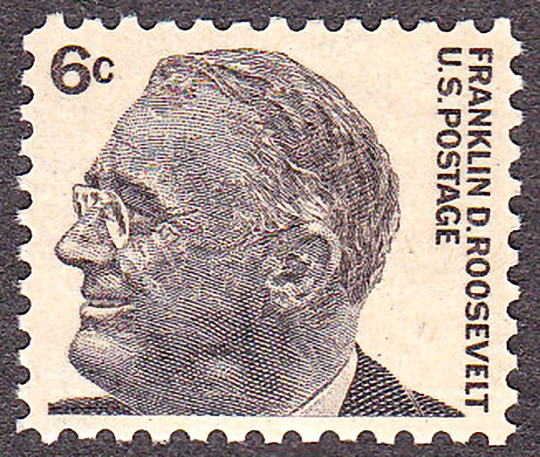 US Postage stamp: FDR, Issue of 1966, 6c